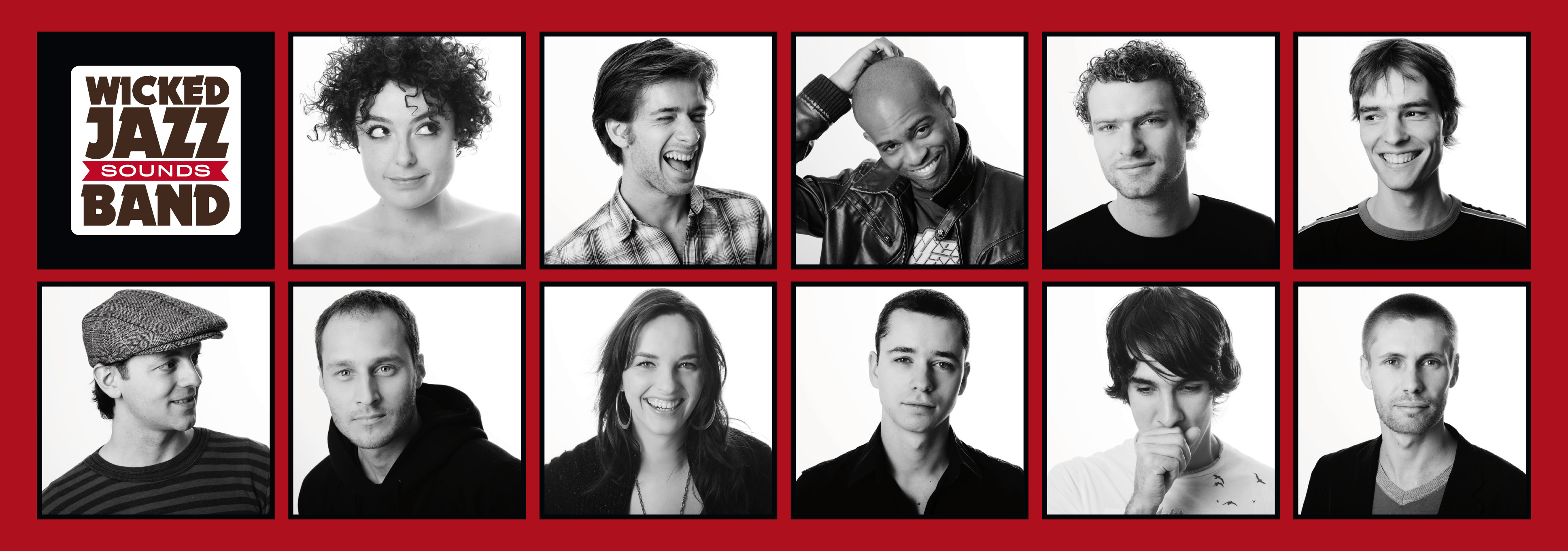 Wicked Jazz Sounds Band